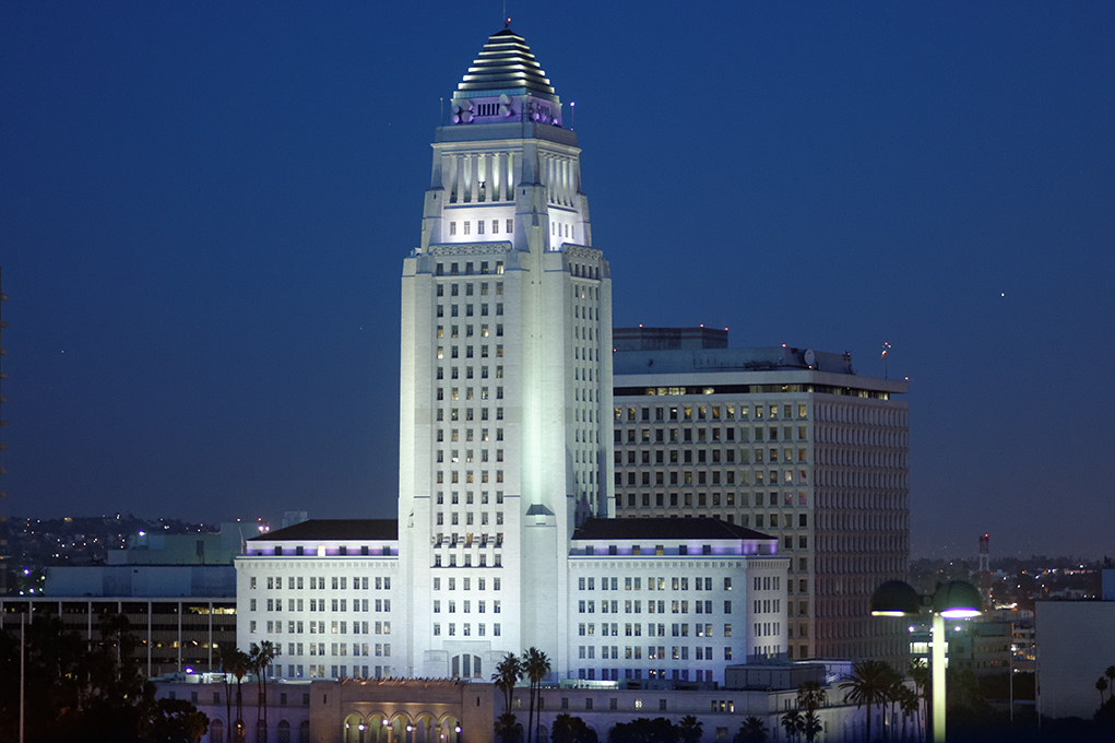 Los Angeles City Hall at sunset June 22nd 2013